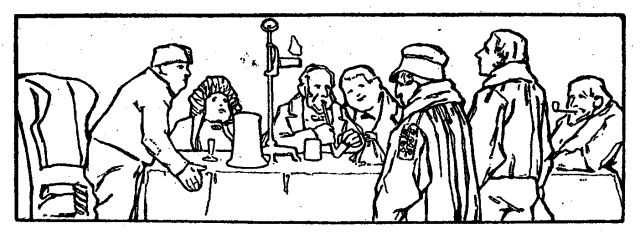 Illustration by Otto Ubbelohde to the fairy tale The Story of the Youth Who Went Forth to Learn What Fear Was